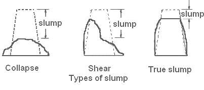 Types of concrete slump: Collapse, shear, true slump